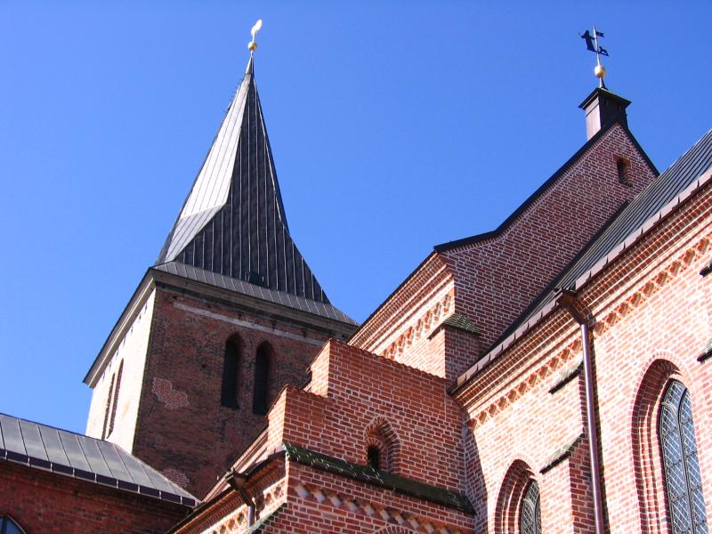 A view of St. John's Church in Tartu, Estonia